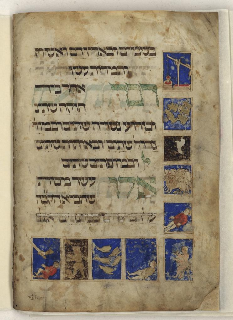 Rotschild Haggadah